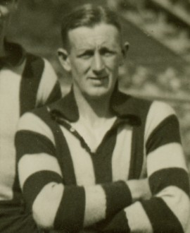 Photograph of Don Harris in 1931